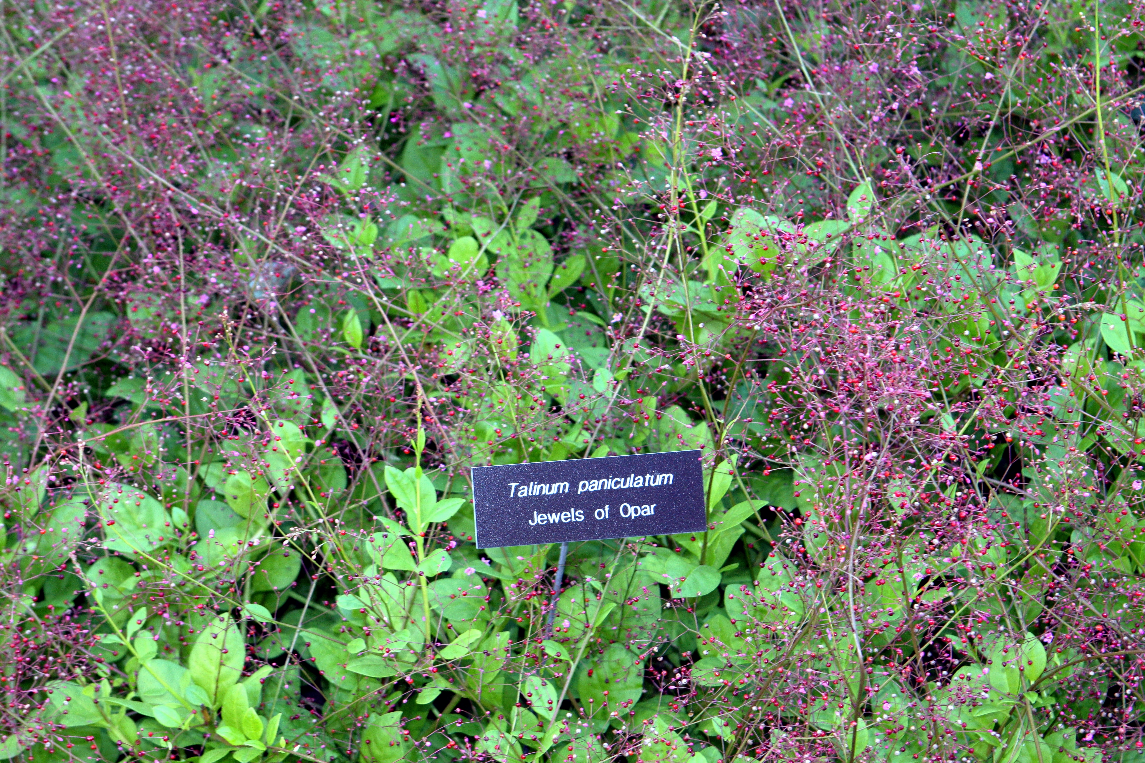 Talinum paniculatum in bloom